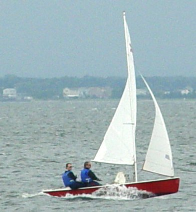 Windmill fighting through the waves